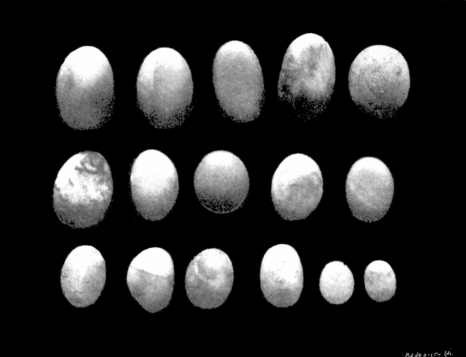 Silicious pebbles from the stomach of a plesiosaur